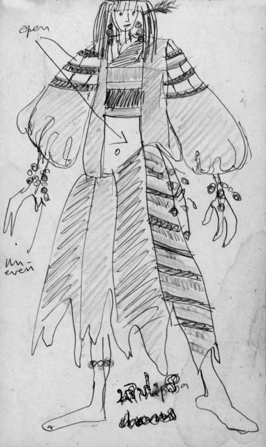 Mihipaba